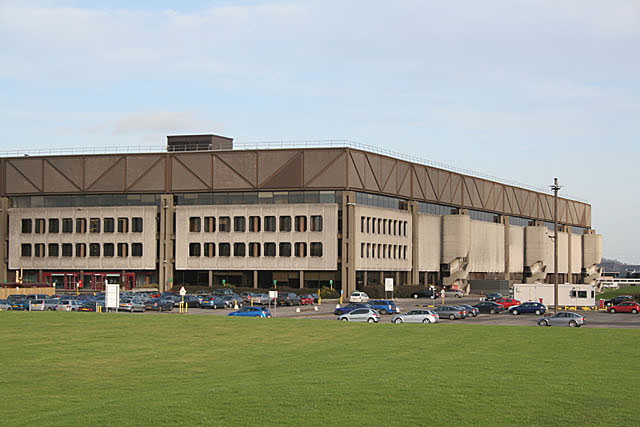 Imperial Tobacco Factory This is the former John Player factory built around 1970. The design is by Arup Associates and this is one of the finest pieces of industrial architecture in the UK from the post-war period. (Demolished in 2019.)